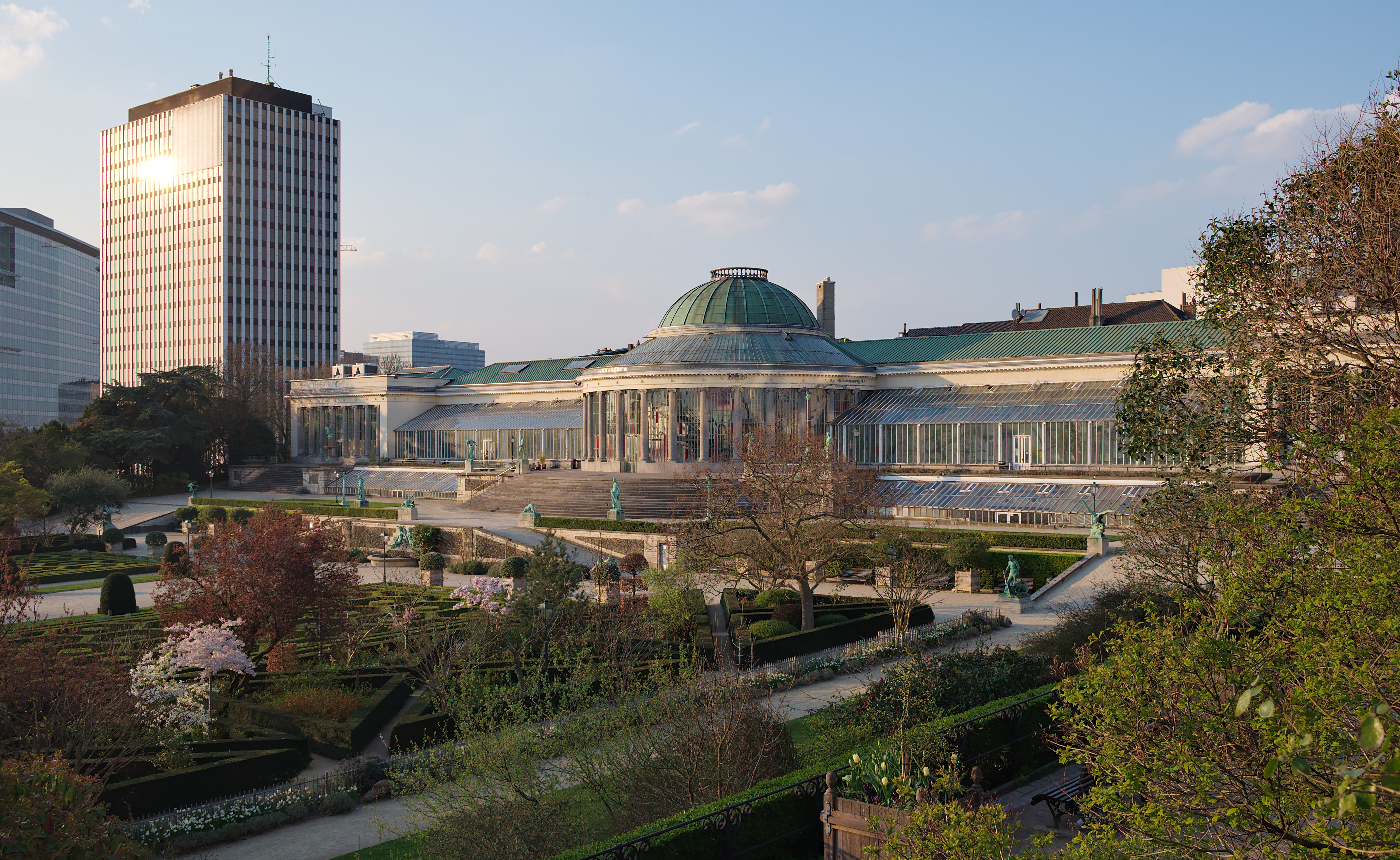 Botanical Garden of Brussels during golden hour This photo of immovable heritage has been taken in the Brussels Capital Region